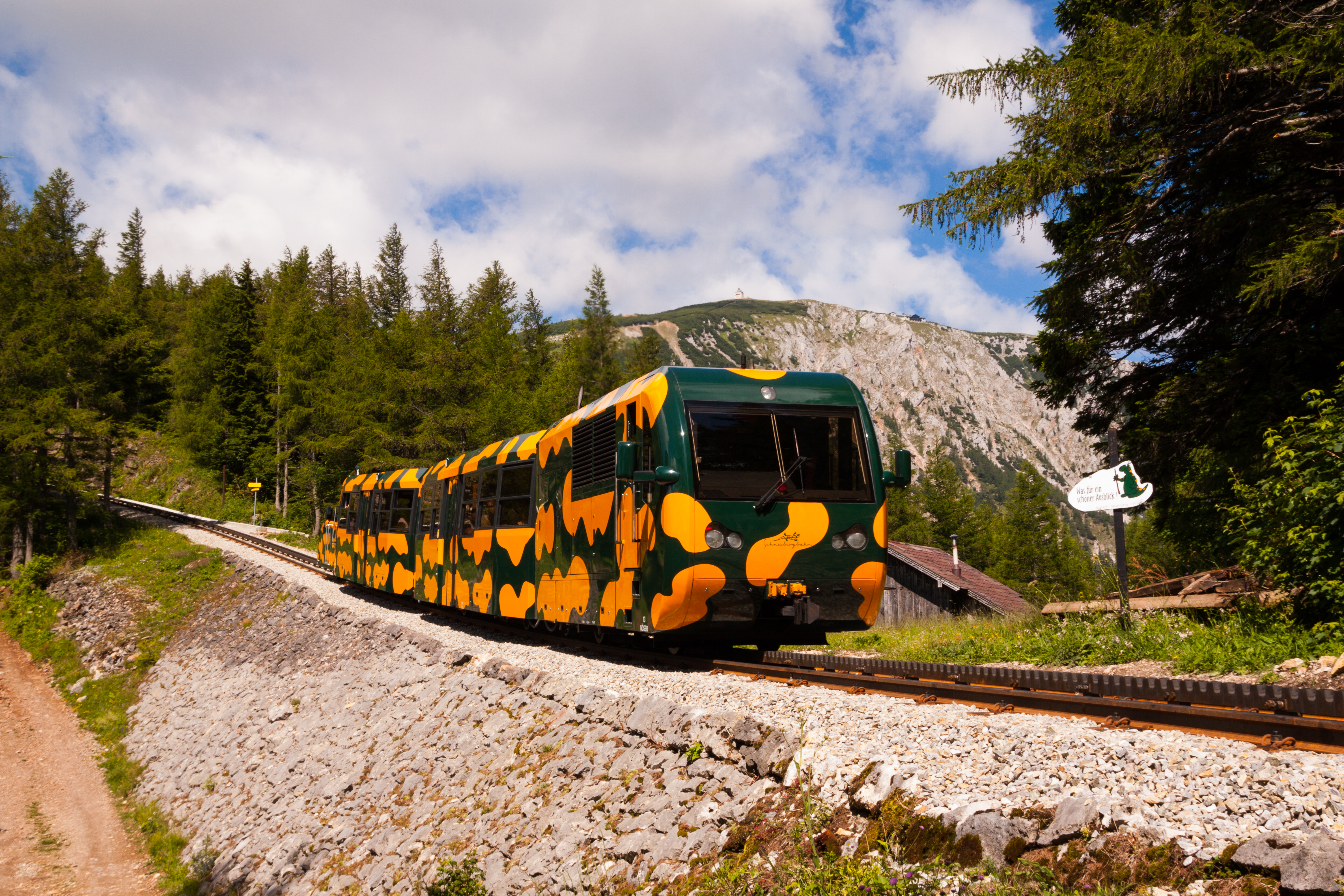 Push-pull train «Salamander» with diesel locomotive 13 of the Schneebergbahn near the station Baumgartner.